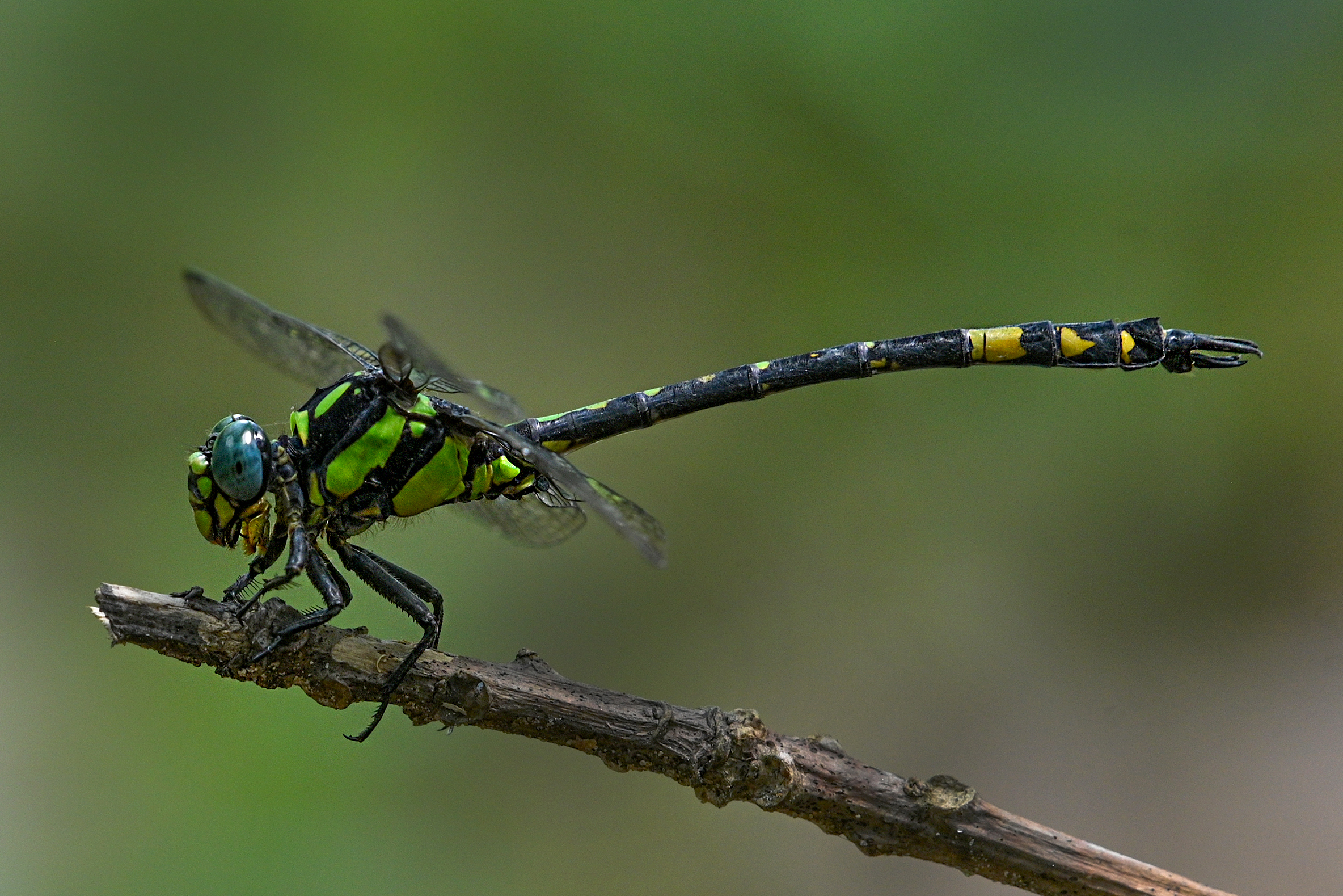 male